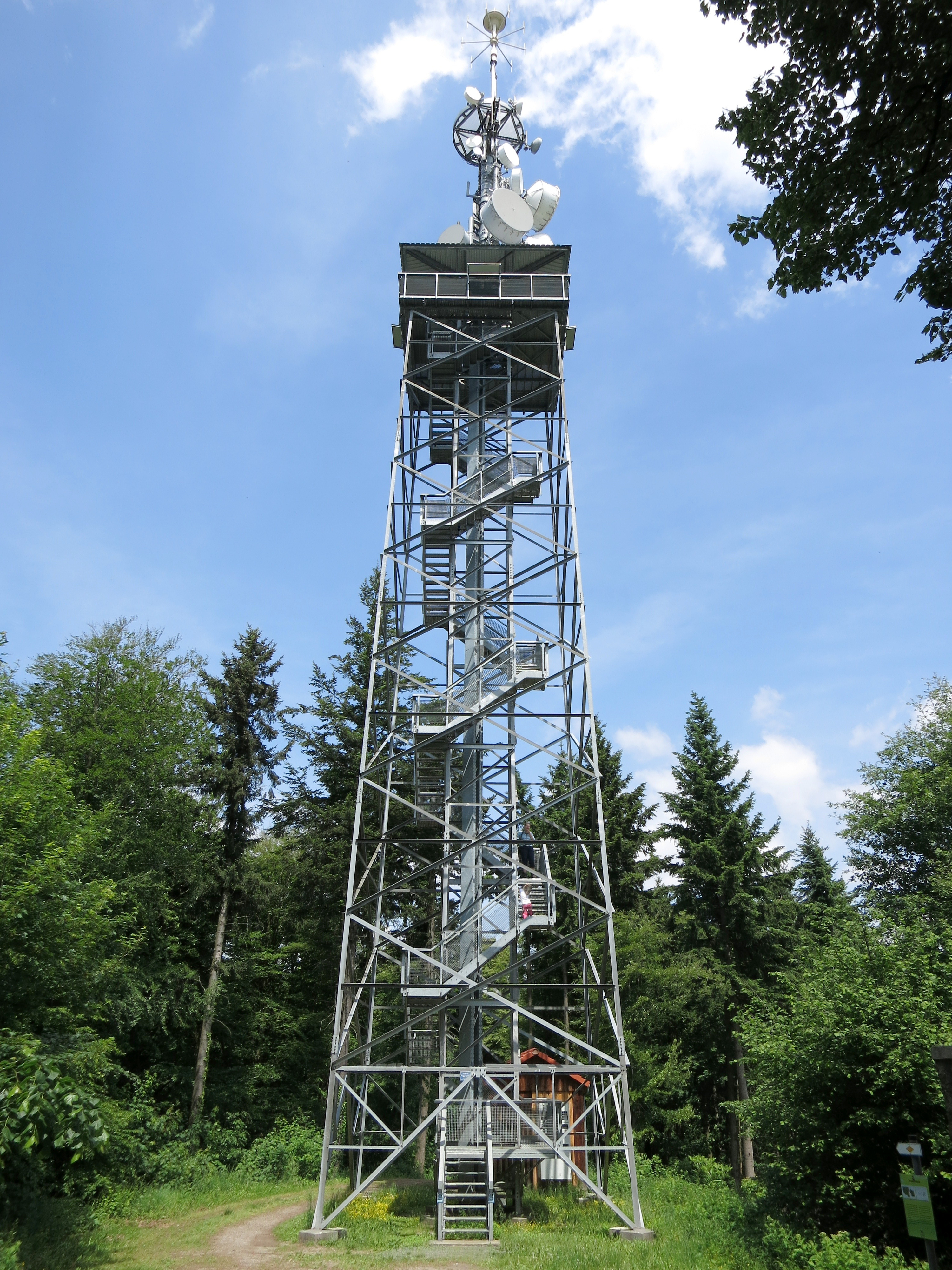 Eichelspitzturm, Kaiserstuhl